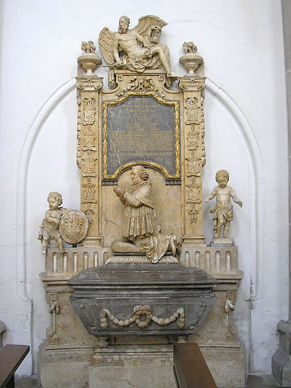 Eichstaett cathedral (Upper Bavaria, Germany). Western choir. Epitaph of Prince-Bishop Johann Anton von Zehmen (1790) by Ignaz Alexander Breitenauer .